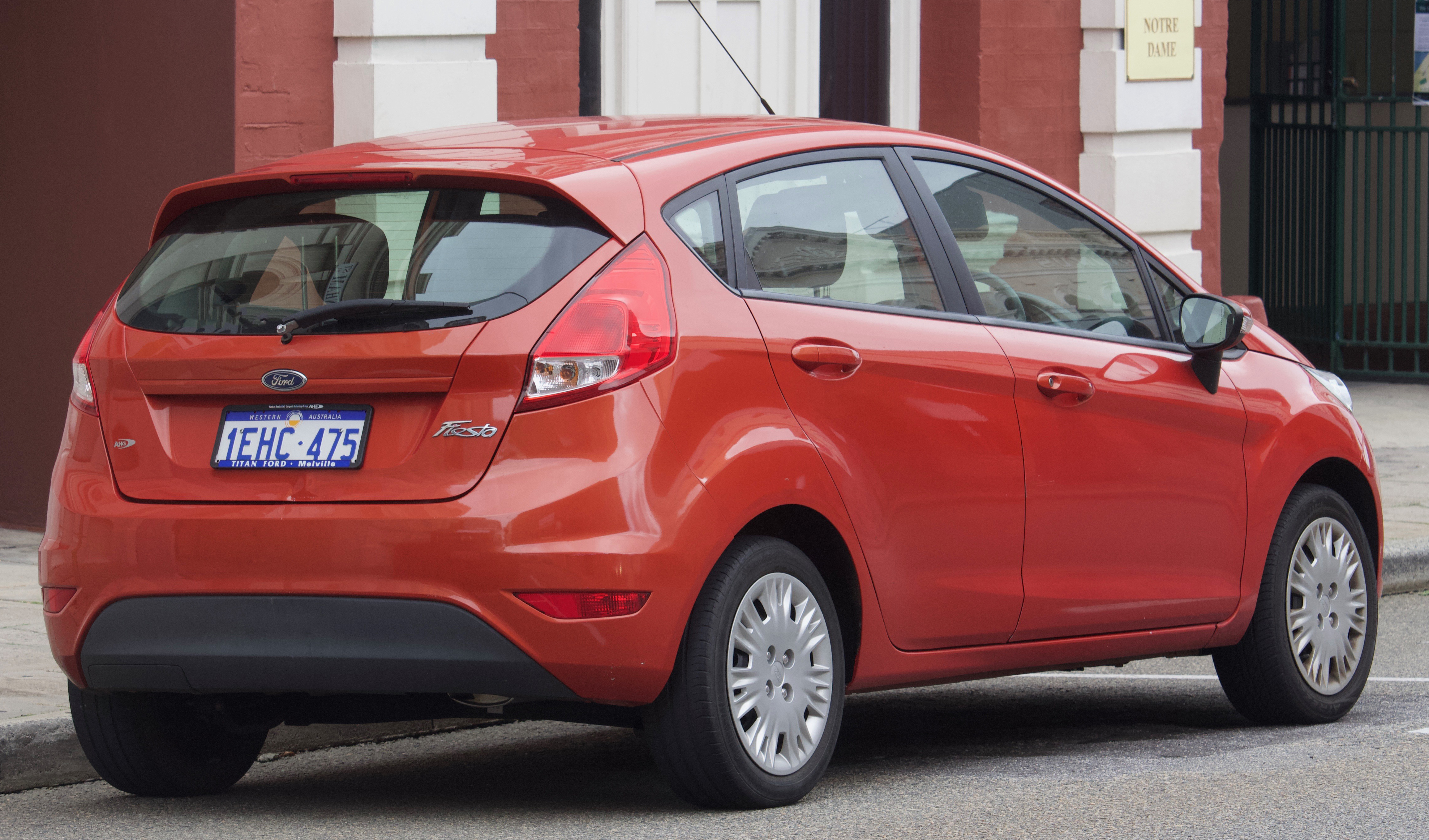 2013 Ford Fiesta (WZ) Ambiente 5-door hatchback. Photographed in Fremantle, Western Australia, Australia.